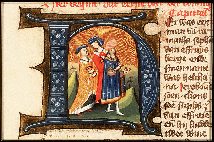 Illuminated letter of Elkanah and his two wives. Manuscript Den Haag, KB, 78 D 38 I